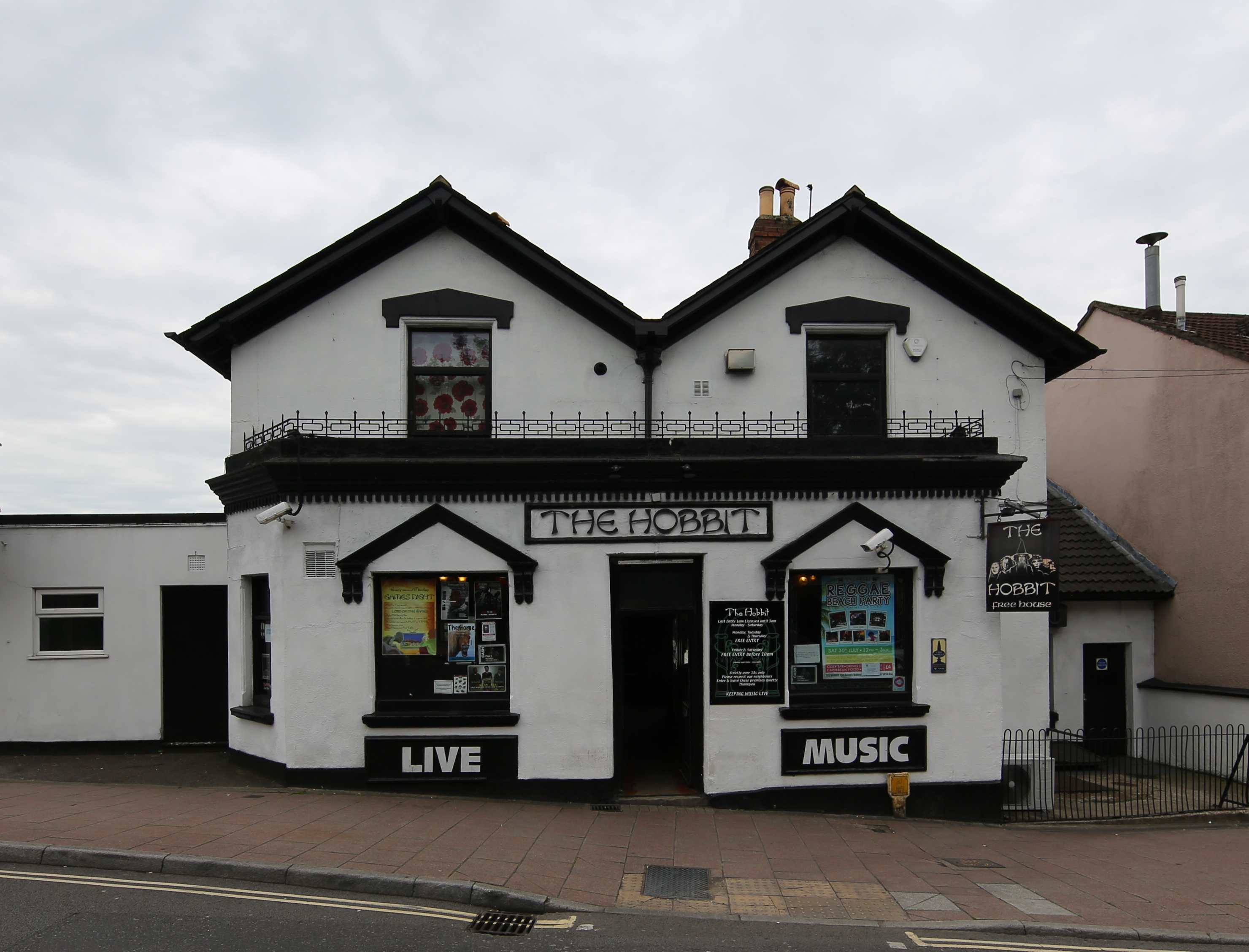 The outside of The Hobbit pub southampton